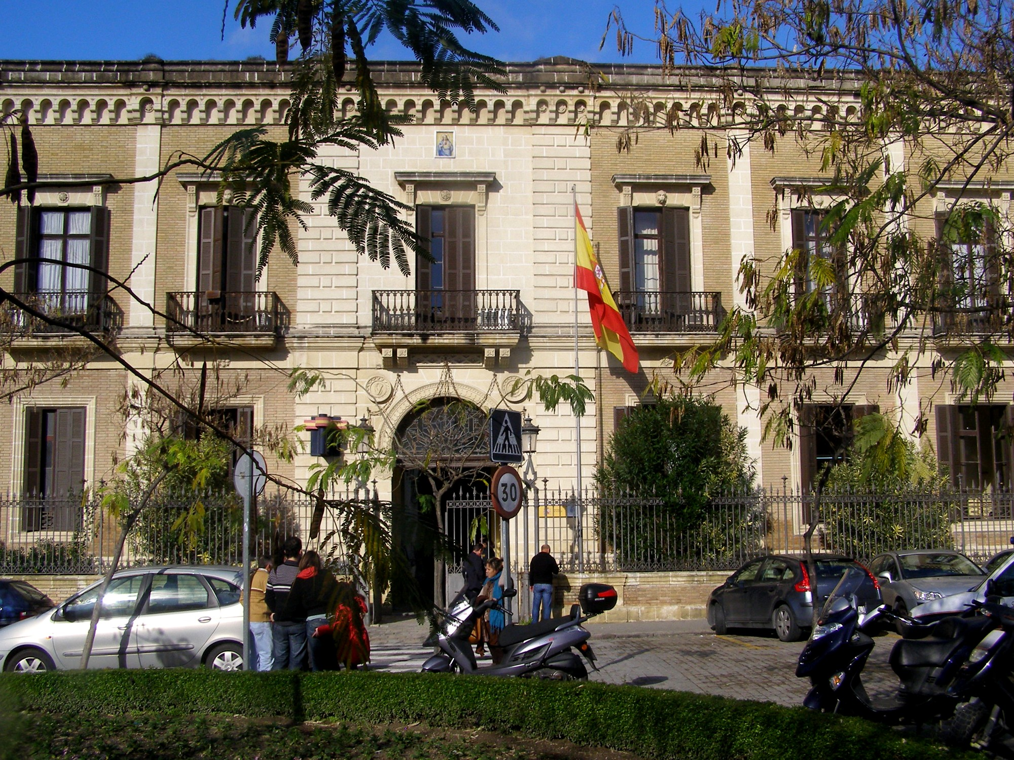 Conde de Puerto Hermoso Palace, Façade, Jerez